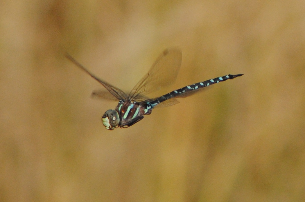 Aeshna tuberculifera 10/9/10 in Frederick County, MD#